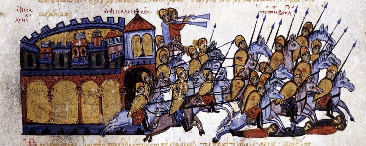 The Thessalonians pursue the Bulgarians under Alusian, who had attacked their city during the Uprising of Peter Delyan